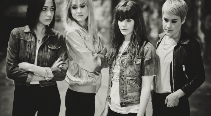 Sahara Hotnights by Oscar Näsström